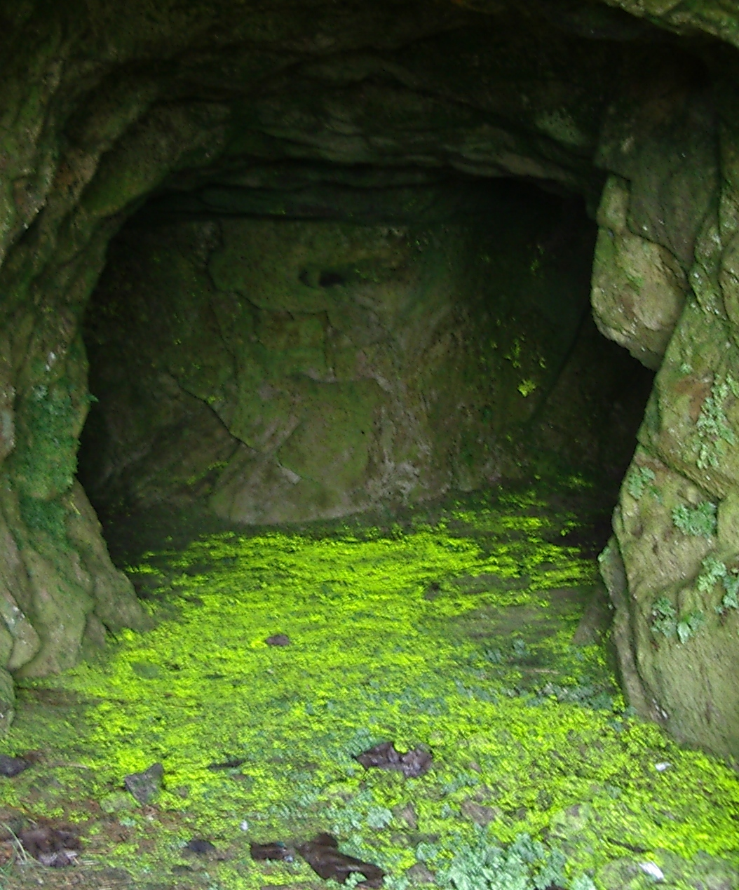 Schistostega pennata in a coastal cave, pointe du Raz, Plogoff, Finistère, Bretagne, France